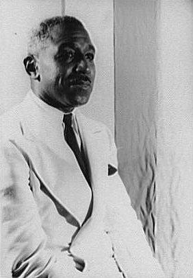 George S. Schuyler — far-right conservative African American author. Photo taken by Carl Van Vechten, photographer. CREATED/PUBLISHED 1941 July 2. Portrait of Carl Van Vechten